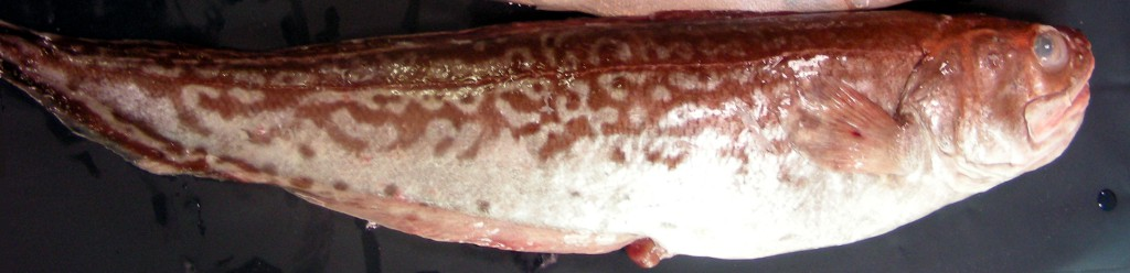 Hoplobrotula armata, (Temminck & Schlegel, 1846) Snubnose brotula